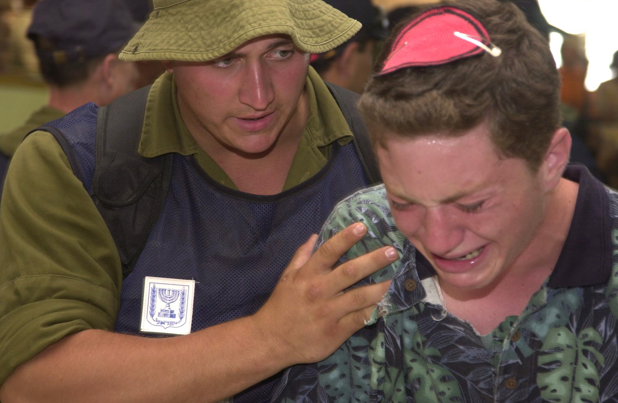 August 22, 2005. Israeli soldier comforts a resident as he evacuates the community of Gan Or. The evacuation of Gan Or was part of the Gaza Disengagement, which took place during the summer of 2005.